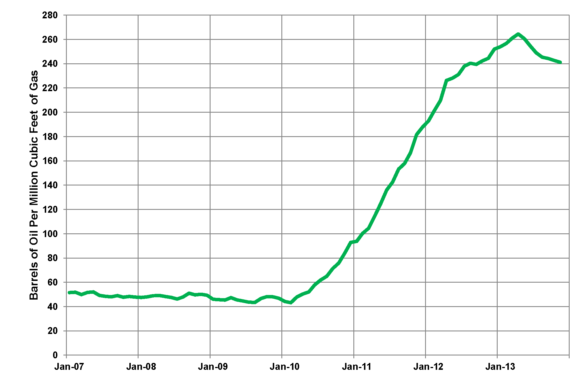 The oil to gas ratio from the Eagle Ford increased in 2010 when companies shifted drilling from gas-rich to more oil-rich areas..